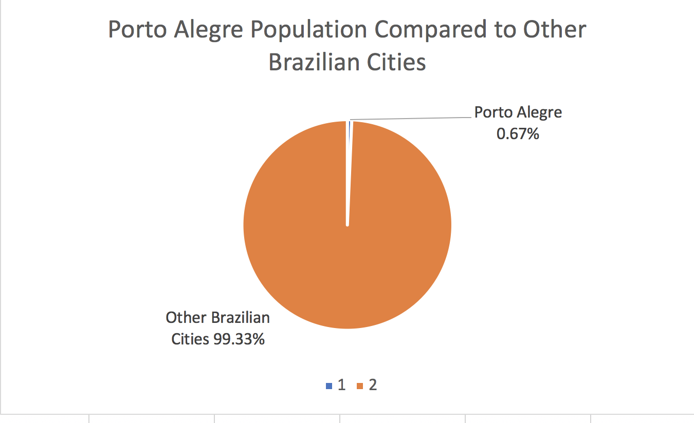 This Pie Graph represents the proportion of the Brazilian population found in Porto Alegre